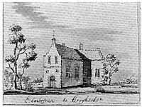 The mansion of Hoogkerk in 1700